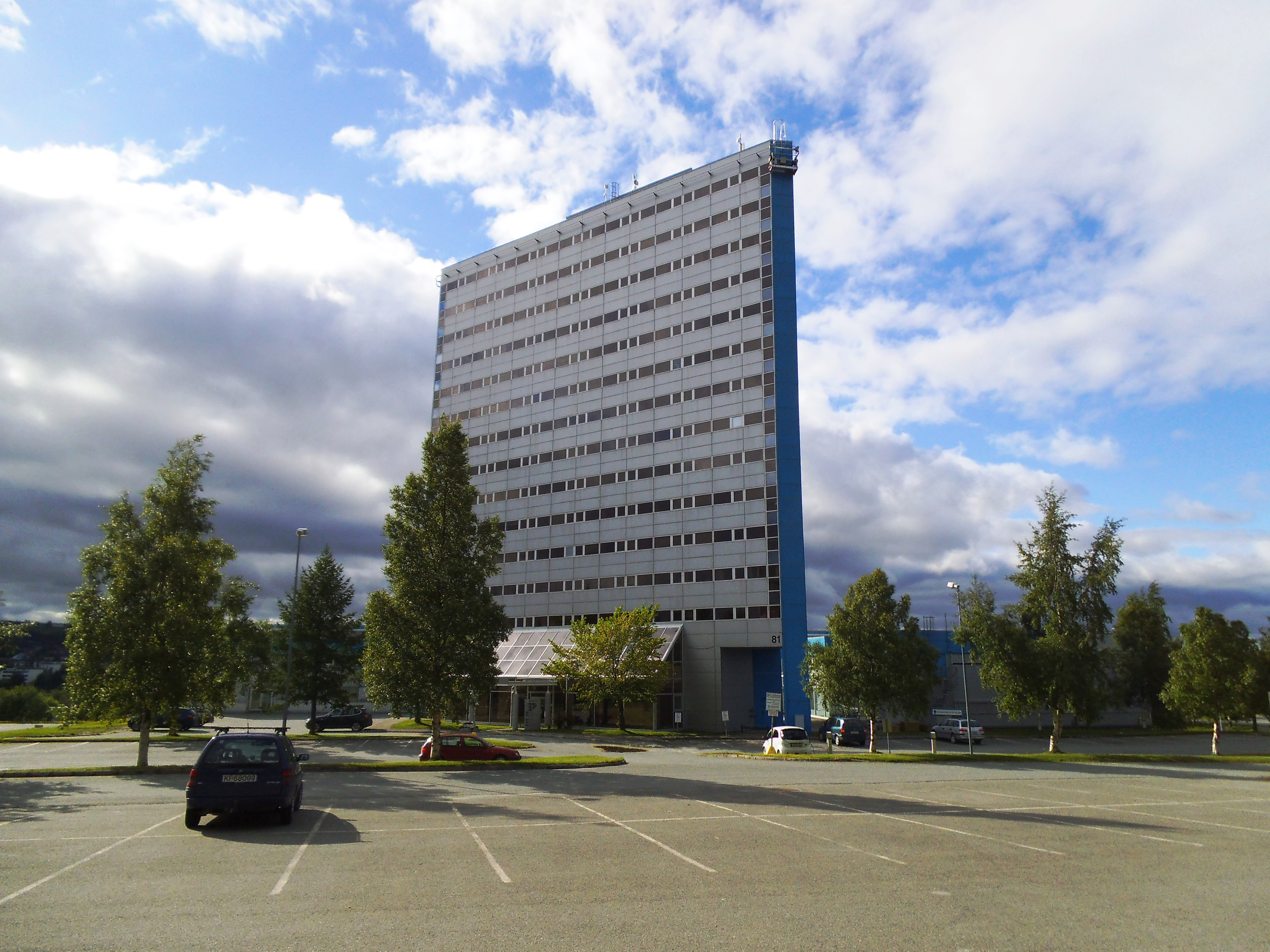 Trekanten på Rosten is an office building in Heimdal, Trondheim.